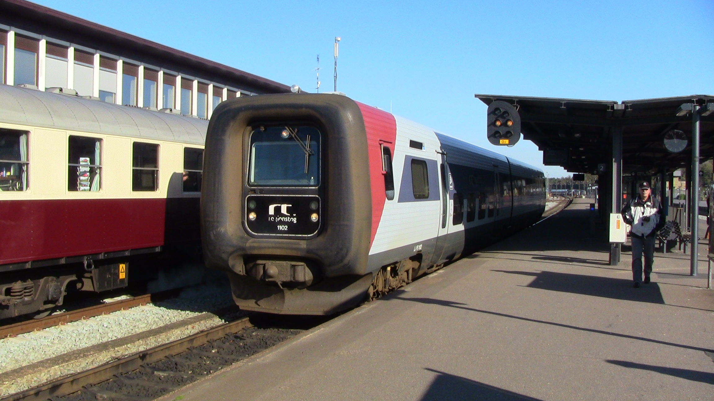 Diesel multiple unit IC2 02 in Nykøbing F in Denmark. Behind a heritage train from Copenhagen to Maribo.